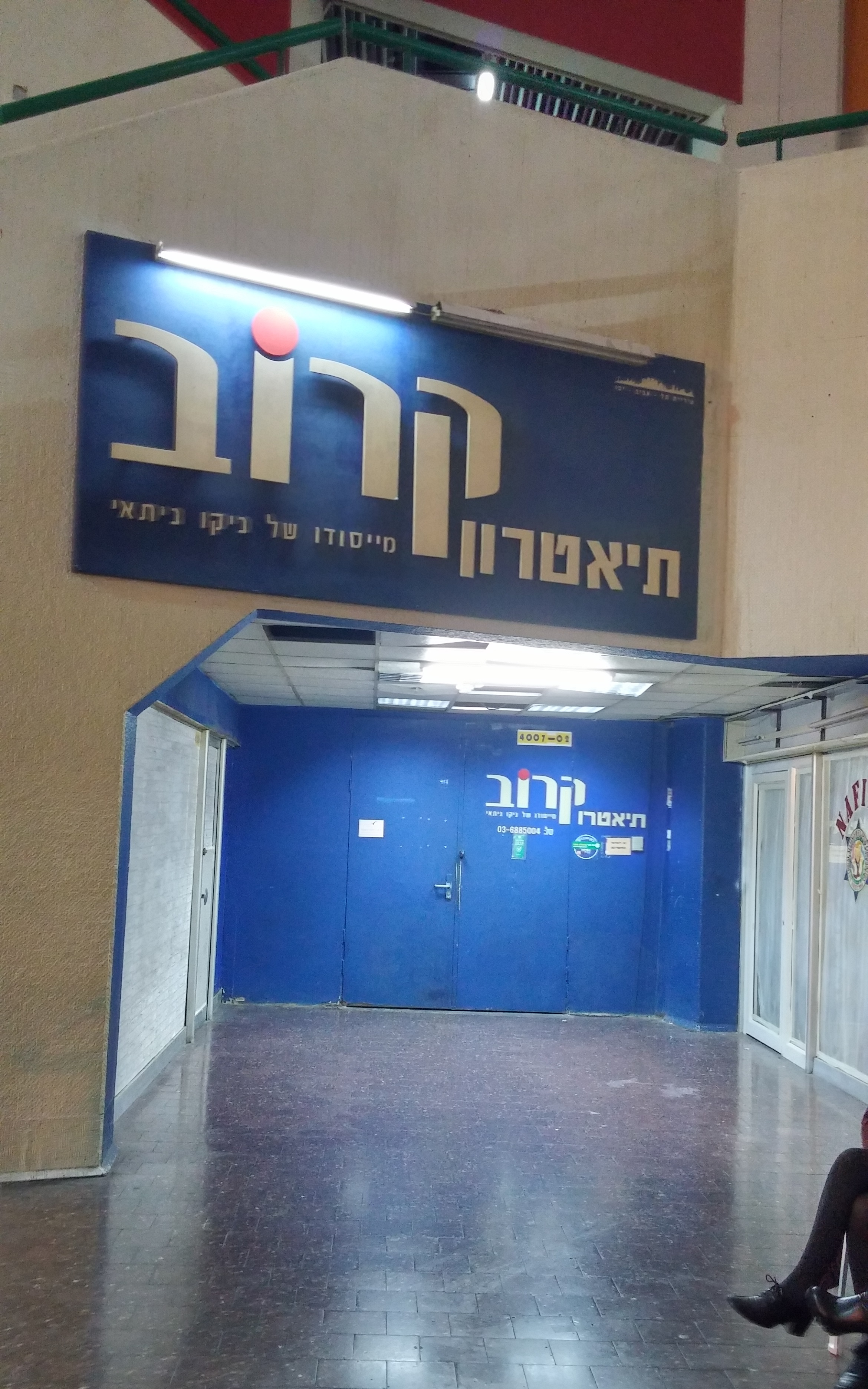 Entrance to Karov Theatre